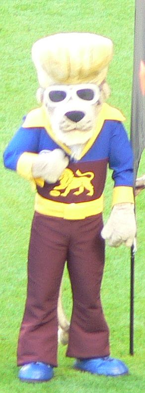 Bernie Gabba Vegas. Brisbane Lions Mascot.